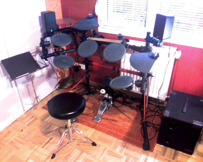 Digital drumset Yamaha DTXPress II